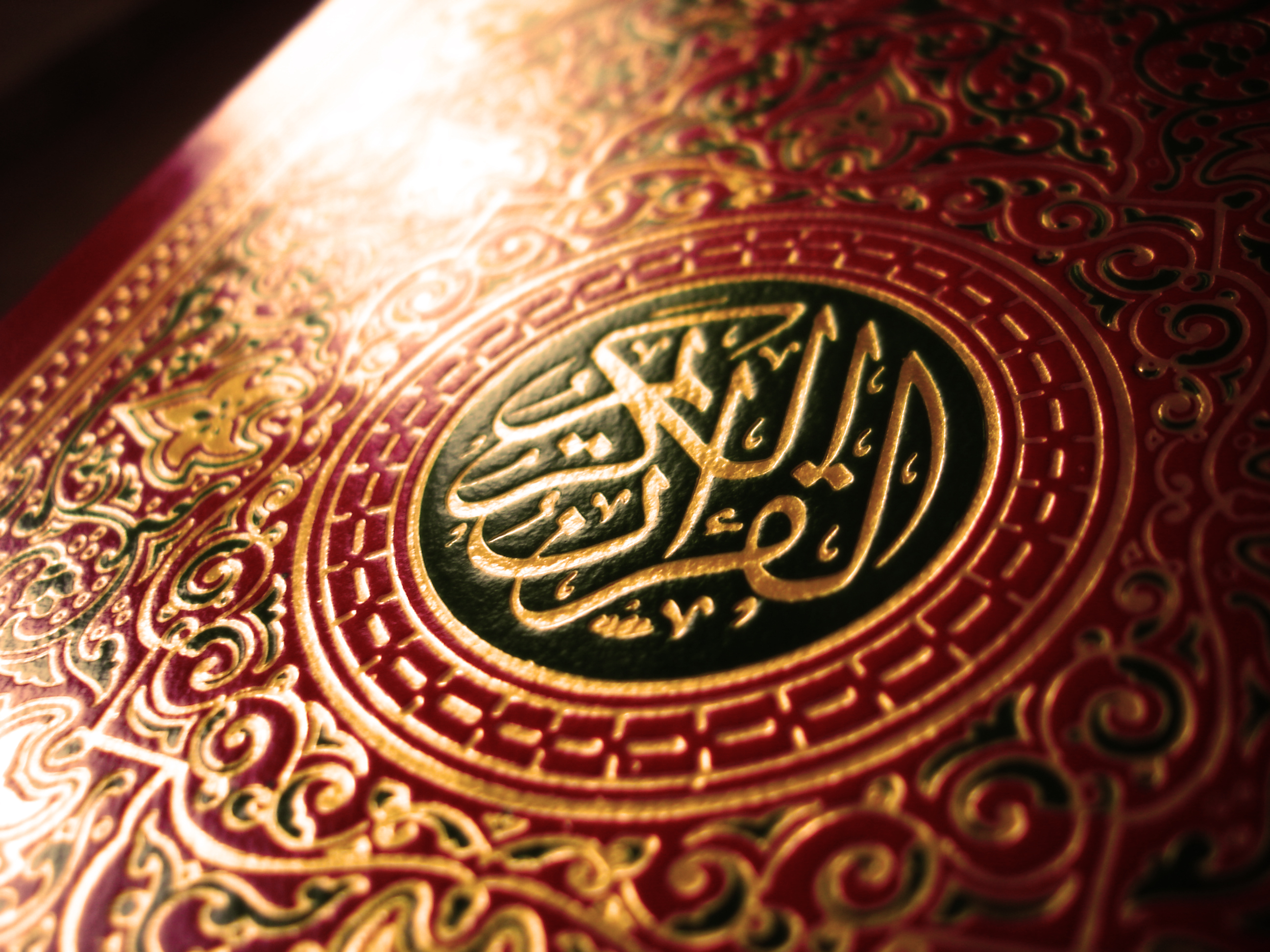 Front of the Quran